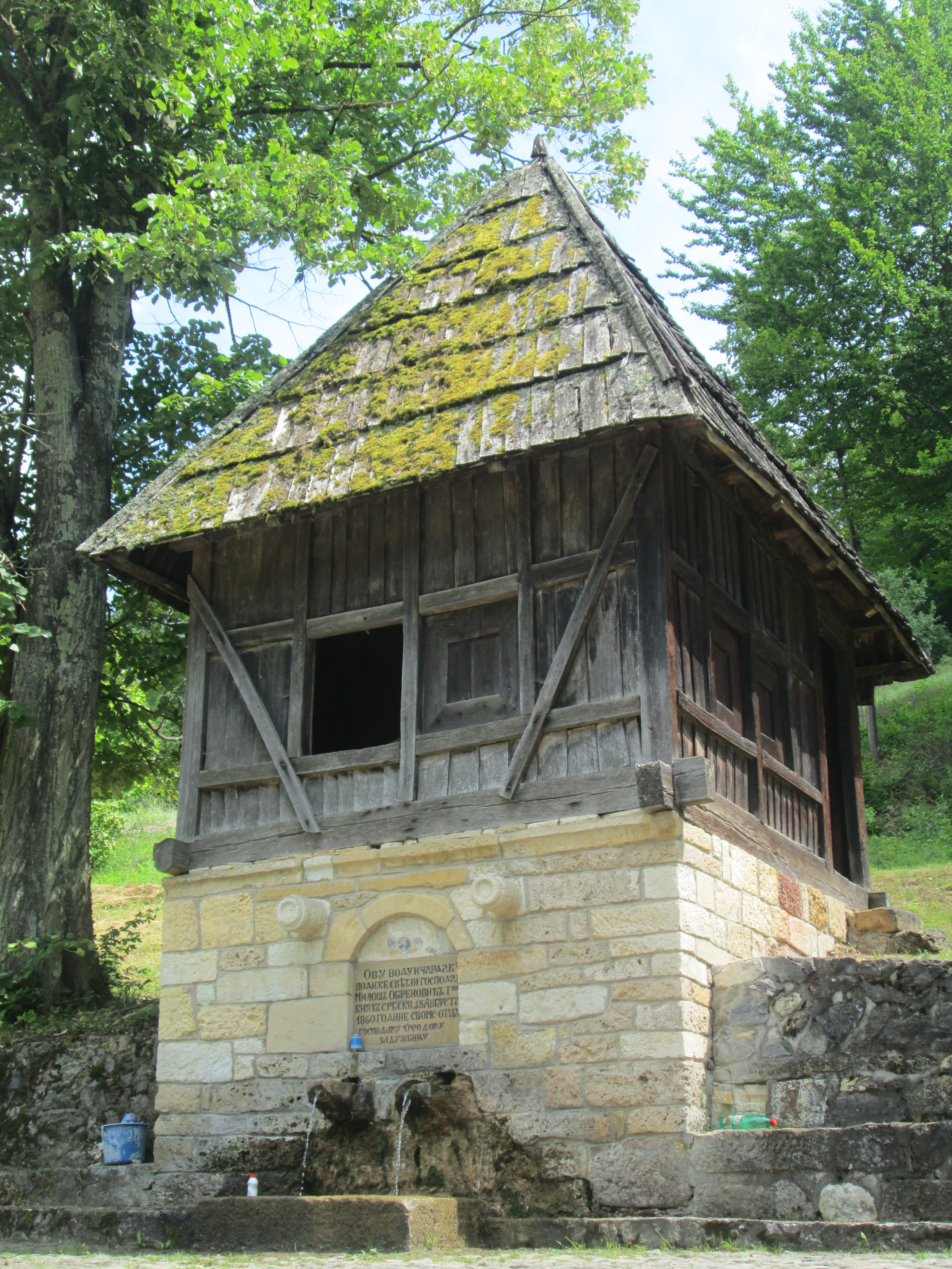 Watchtower and fountain, endowment of Miloš Obrenović to his father Gornja Dobrinja Српски (ћирилица): Чардак и чесма, задужбина кнеза Милоша Обреновића своме оцу Теодору, Горња Добриња